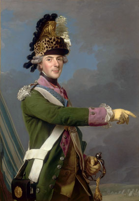 Louis, Dauphin of France (1729–1765), is shown with an emaciated face, in the uniform of Colonel General of the Dragoons, in front of the military camp at Compiègne